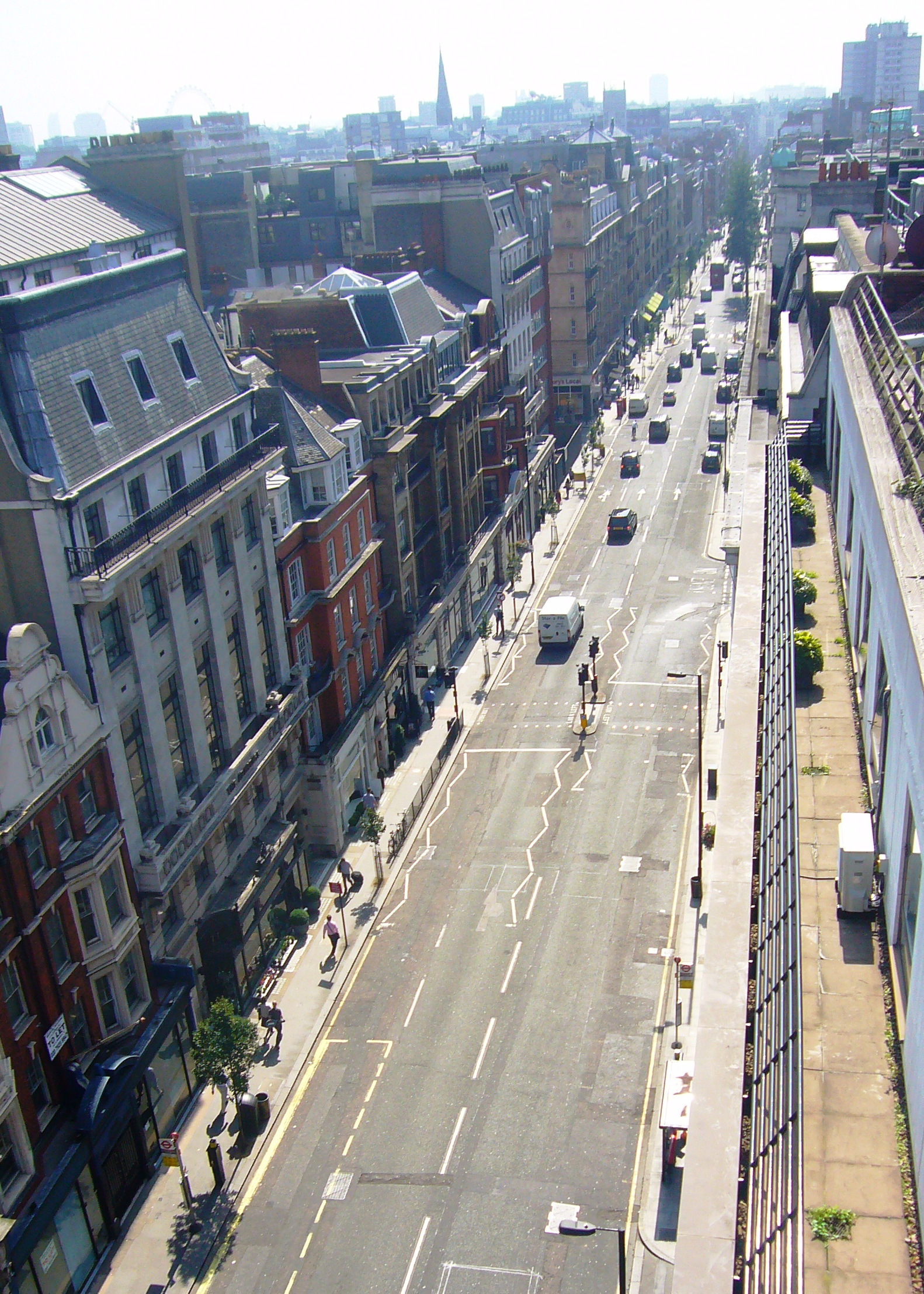 A high view from the north end of Great Portland Street. The road runs north-south from the Marylebone Road ends to Oxford Street.